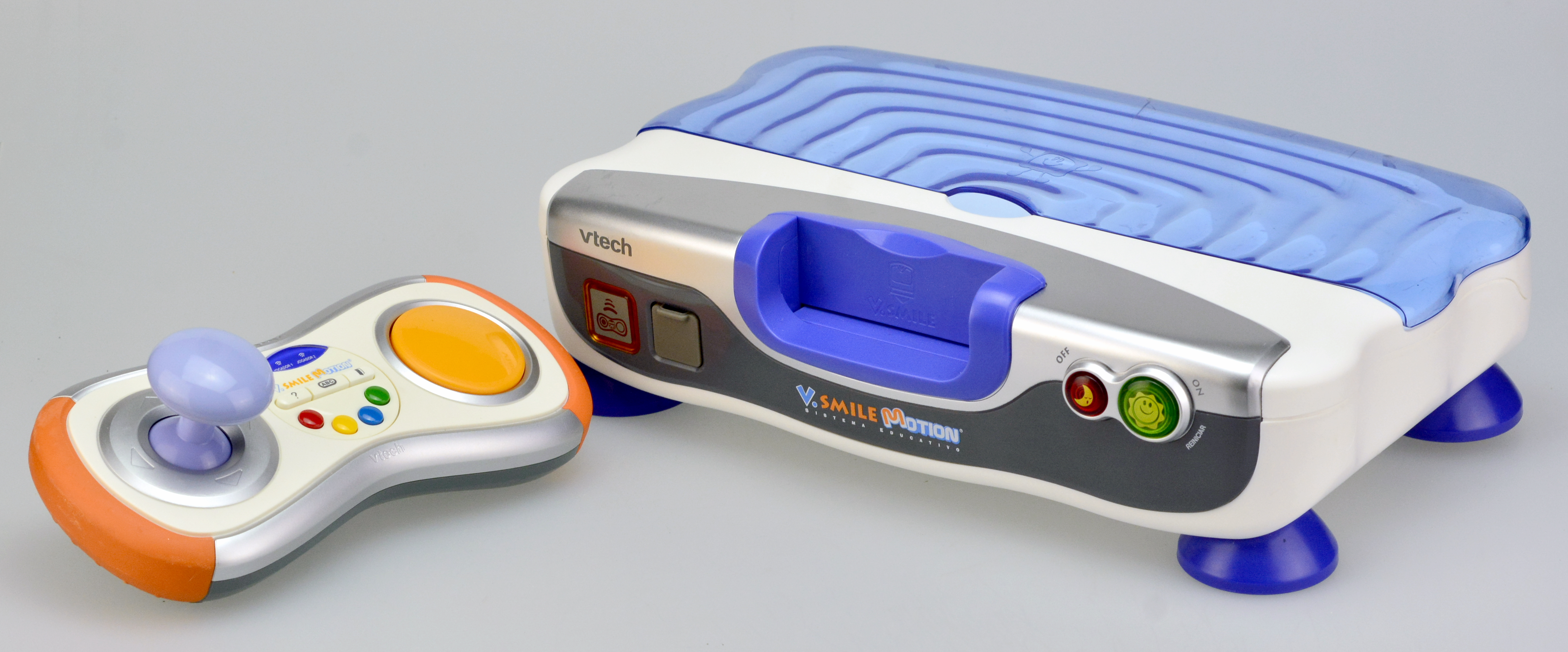 Portuguese version of the V.Smile Motion, a console from the V.Smile line.